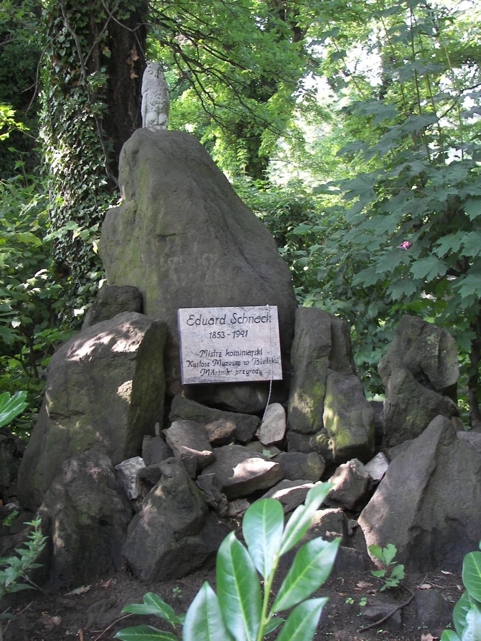 E. Schnack's grave in Bielsko, Poland